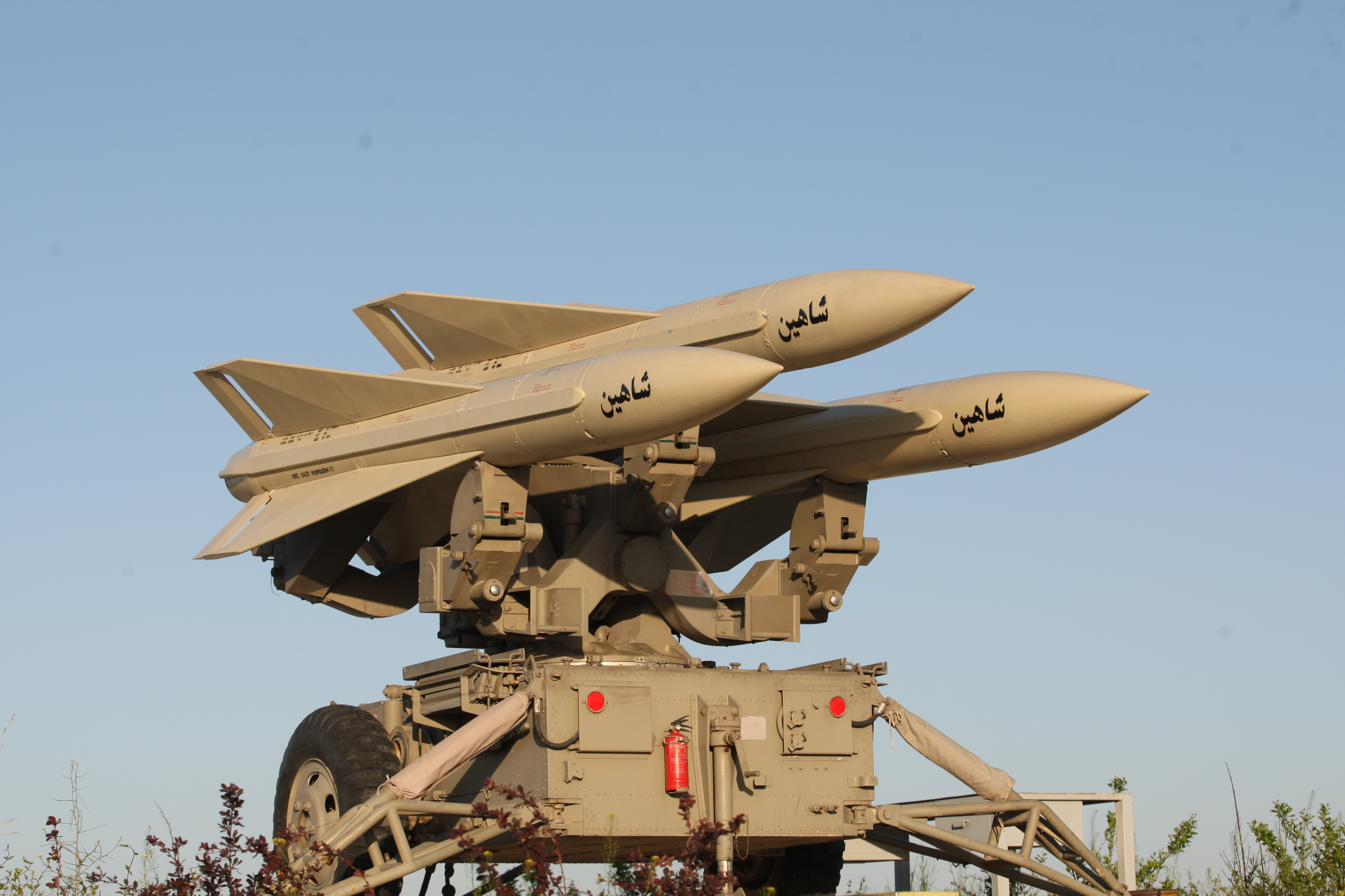 Mersad Air Defense System with Shahin Missile